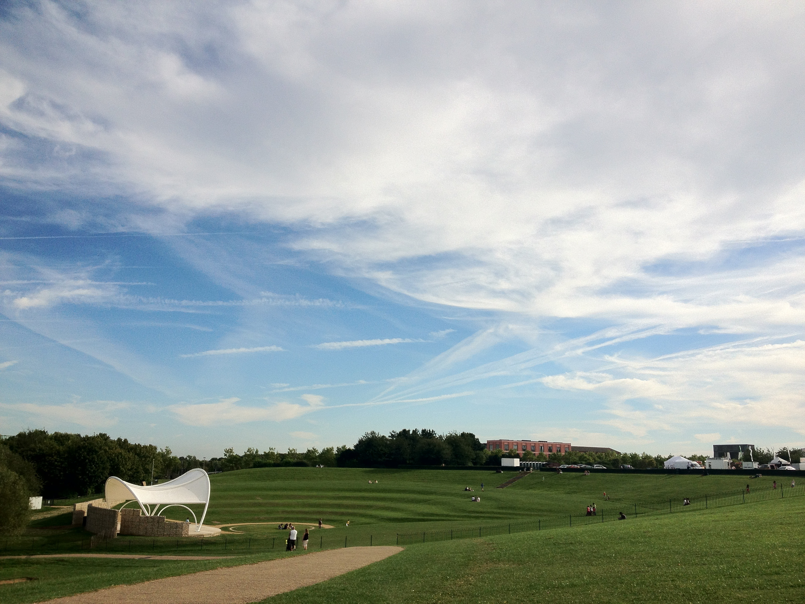 Campbell Park, Milton Keynes, England.